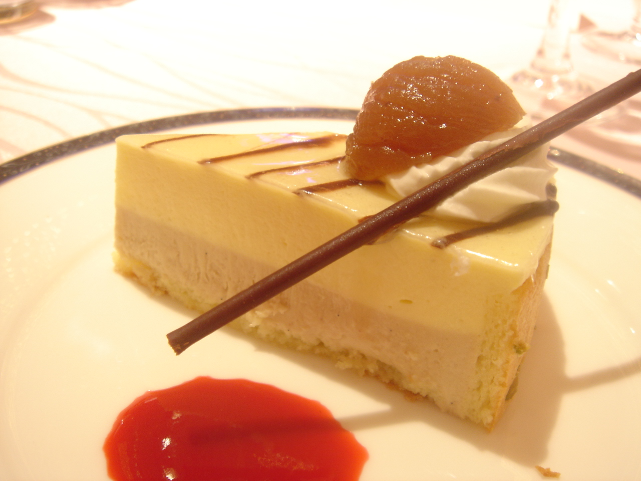 Marron poire (peach) et chocolat amer.